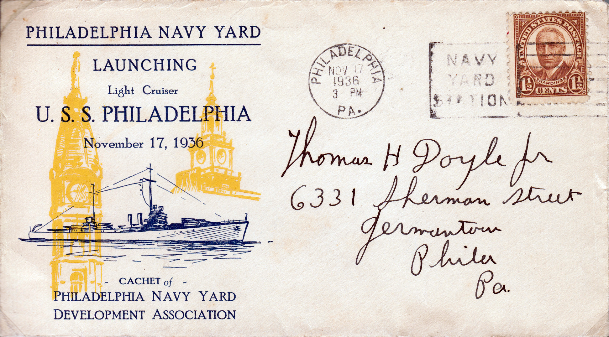 Launching of the USS Philadelphia (CL-41) Commemorative cover with cachet. Postmarked: Philadelphia, PA November 17, 1936 3PM NAVY YARD STATION.